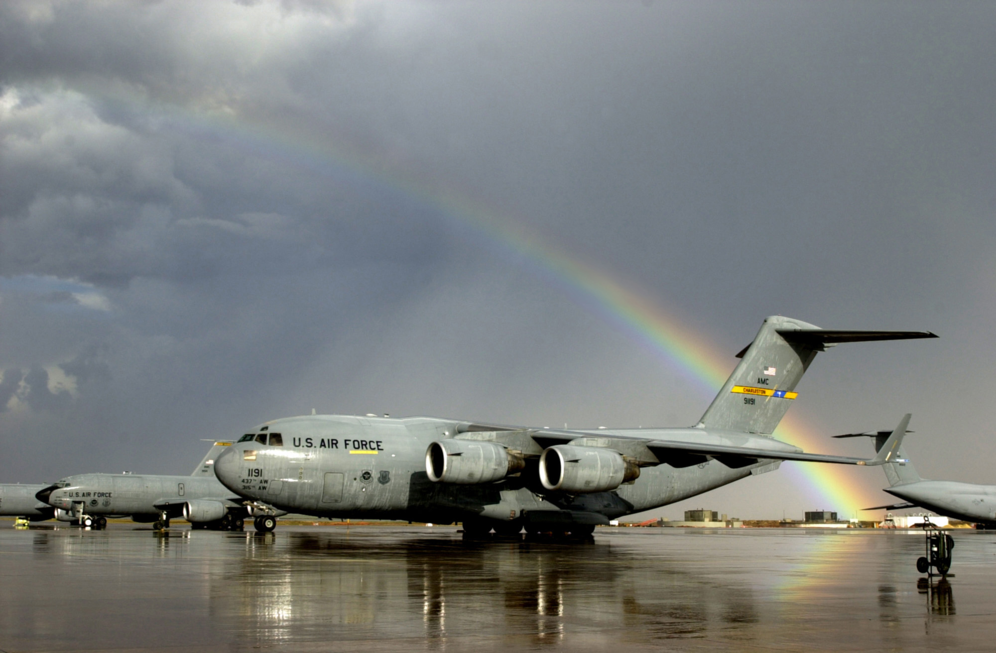 Following a sudden downpour, a rainbow arcs over a line of U.S. Air Force aircraft at Moron, Air Base, Spain